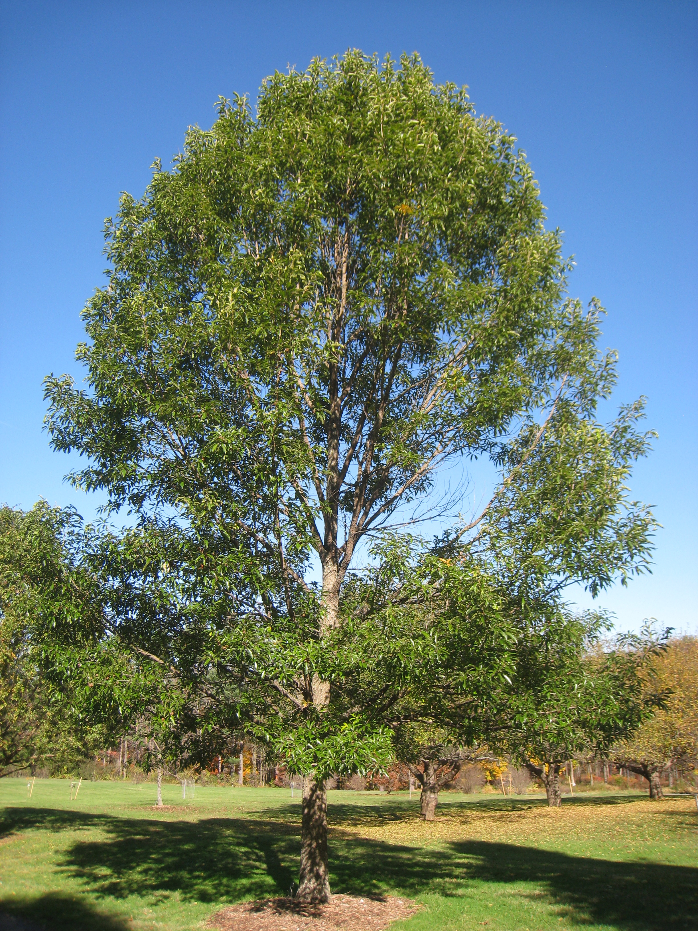 Quercus acutissima specimen in Lasdon Park and Arboretum, Somers, New York, USA.